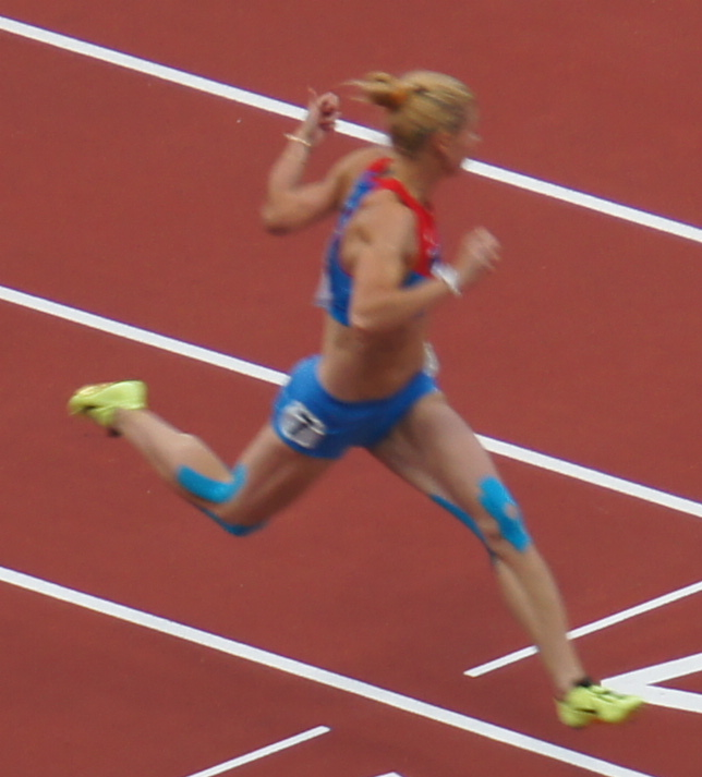 Olga Belkina-Kharitonova competing at the 2012 Summer Olympics